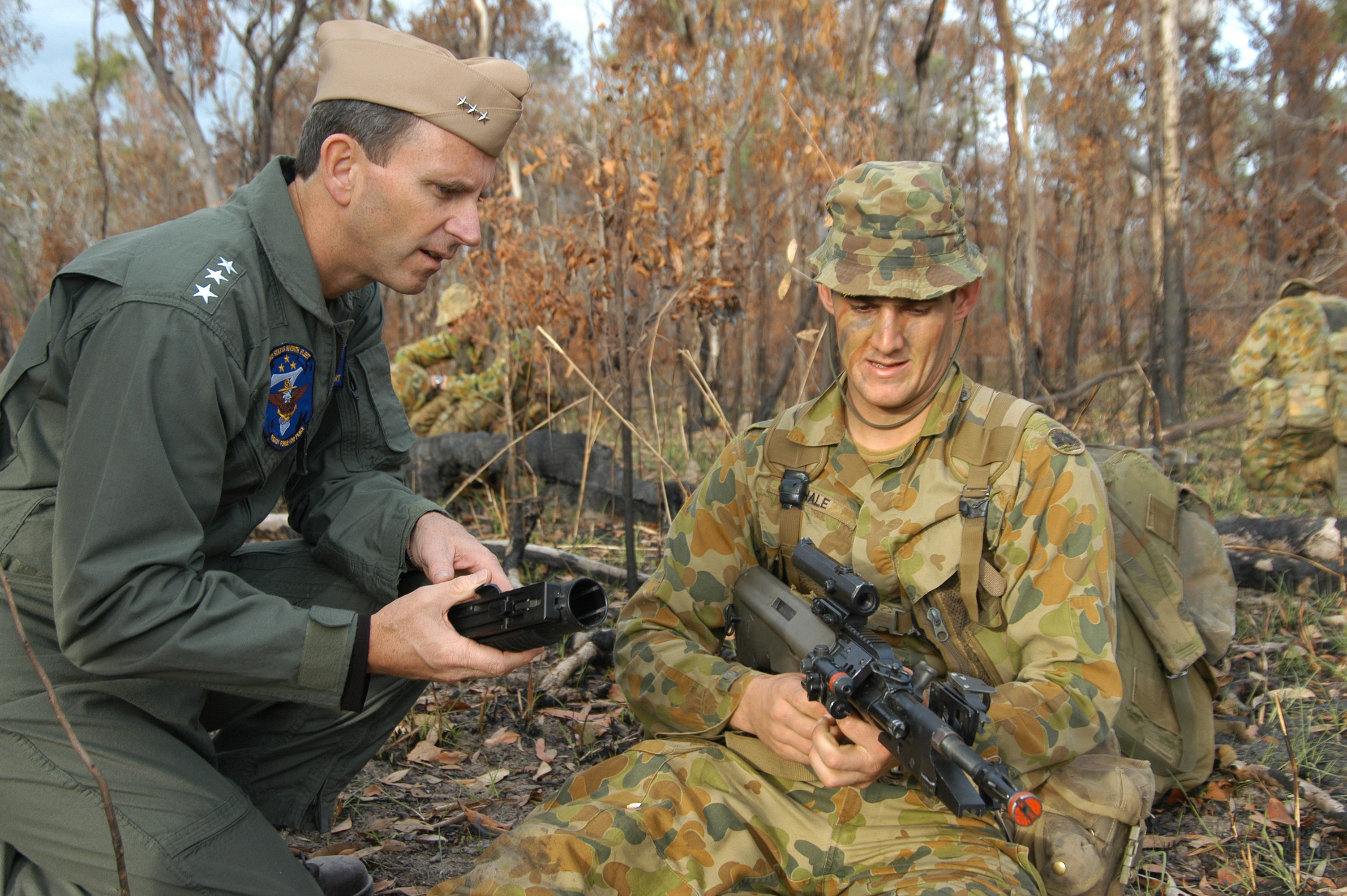 050619-N-2468S-007 Shoalwater Bay, Australia (June 19, 2005) - Commander, U.S. Seventh Fleet, Vice Adm. Jonathan W. Greenert, receives instruction on the F88 Austeyr Individual Weapon from an Australian Soldier from the 3rd Battalion, Royal Australian Regiment. Vice Adm. Greenert visited the Australian troops in the field during Talisman Sabre 2005. The F88 Austeyr Individual Weapon is a light, robust and effective rifle that can be fitted with a grenade launcher assembly. Talisman Sabre is an exercise jointly sponsored by the U.S. Pacific Command and Australian Defense Force Joint Operations Command, and designed to train the U.S. Seventh Fleet commander's staff and Australian Joint Operations staff as a designated Combined Task Force (CTF) headquarters. The exercise focuses on crisis action planning and execution of contingency response operations. U.S. Pacific Command units and Australian forces will conduct land, sea and air training throughout the training area. More than 11,000 U.S. and 6,000 Australian personnel will participate.